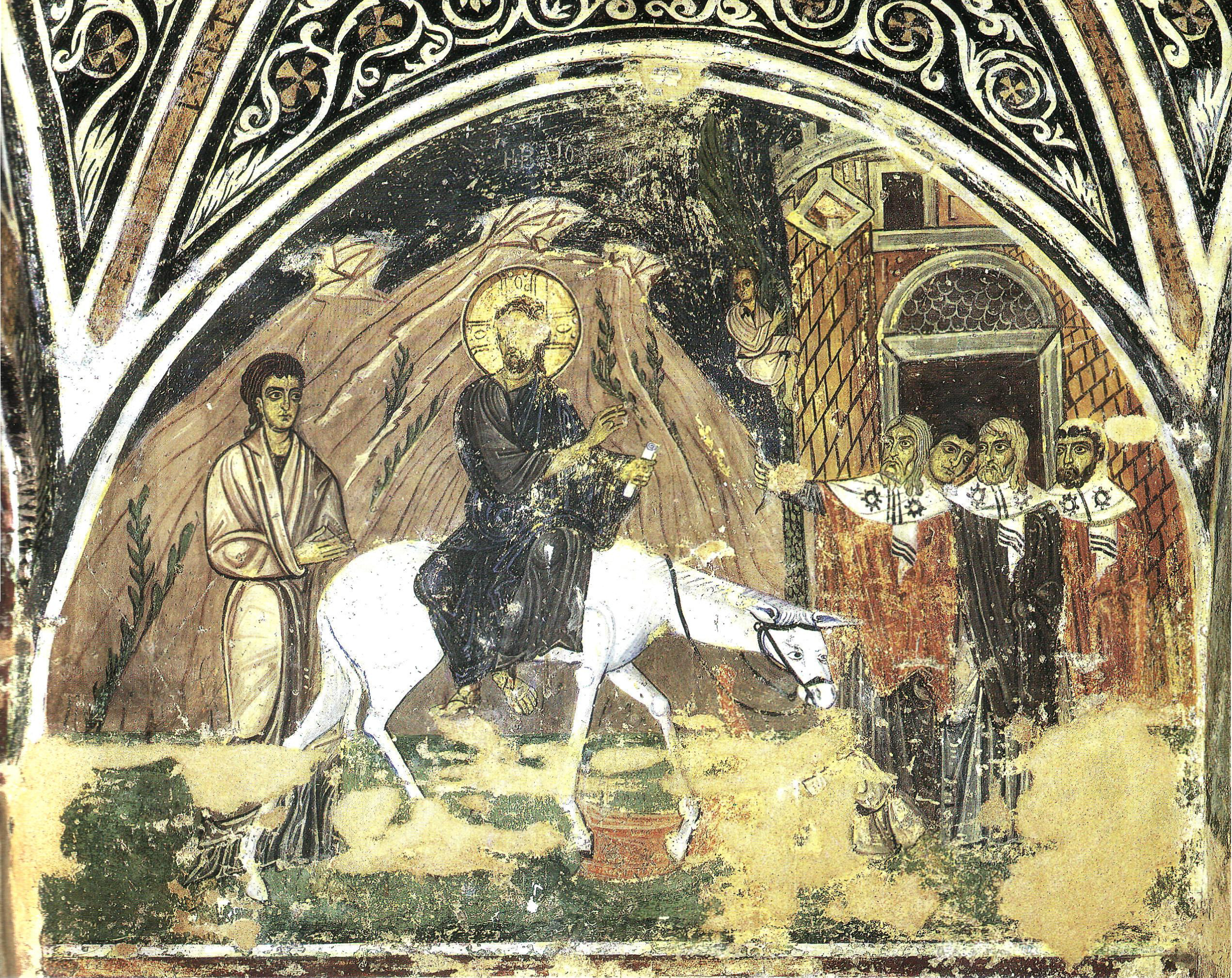 Hosios Loukas Monastery, Boeotia, Greece